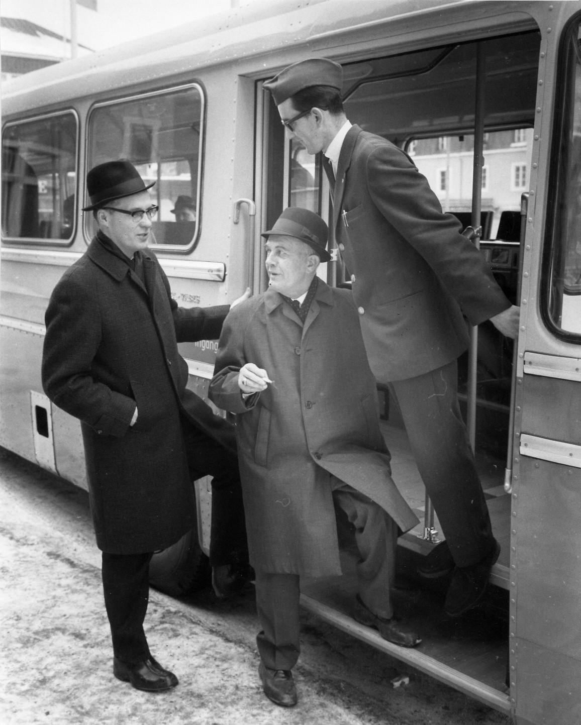 15 new buses to the day of the right-hand traffic diversion. From left: Torsten W. Persson, H. Eje Lindgren and Fritz Eriksson )